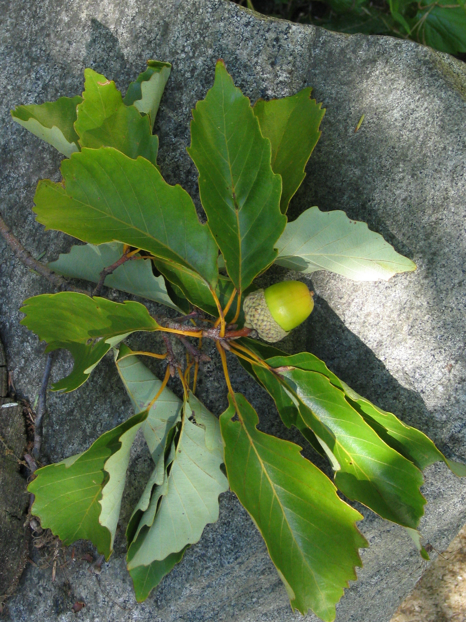 Image of Quercus montana (syn. Quercus prinus)